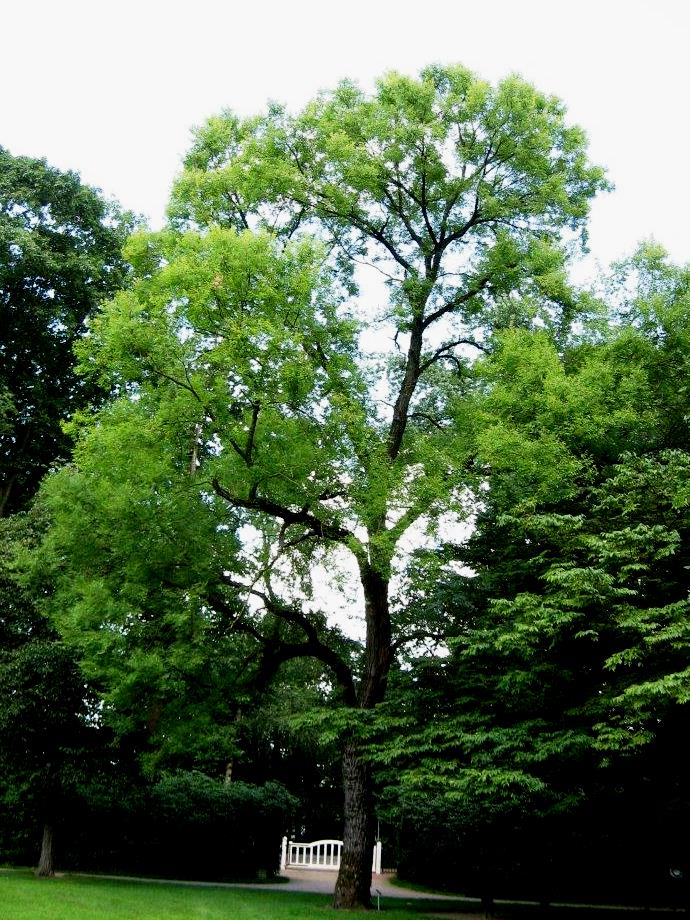 Photo of Ulmus pumila cultivar 'Poort Builten' taken at Poort Builten.taken by R. Nijboer